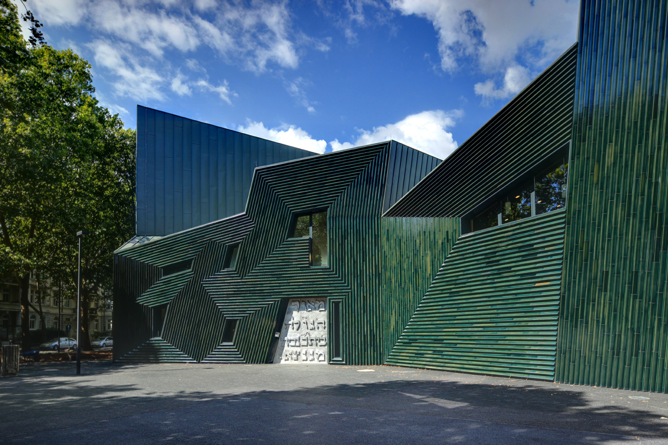 Synagogue Mainz: Exterior View, Main Entrance